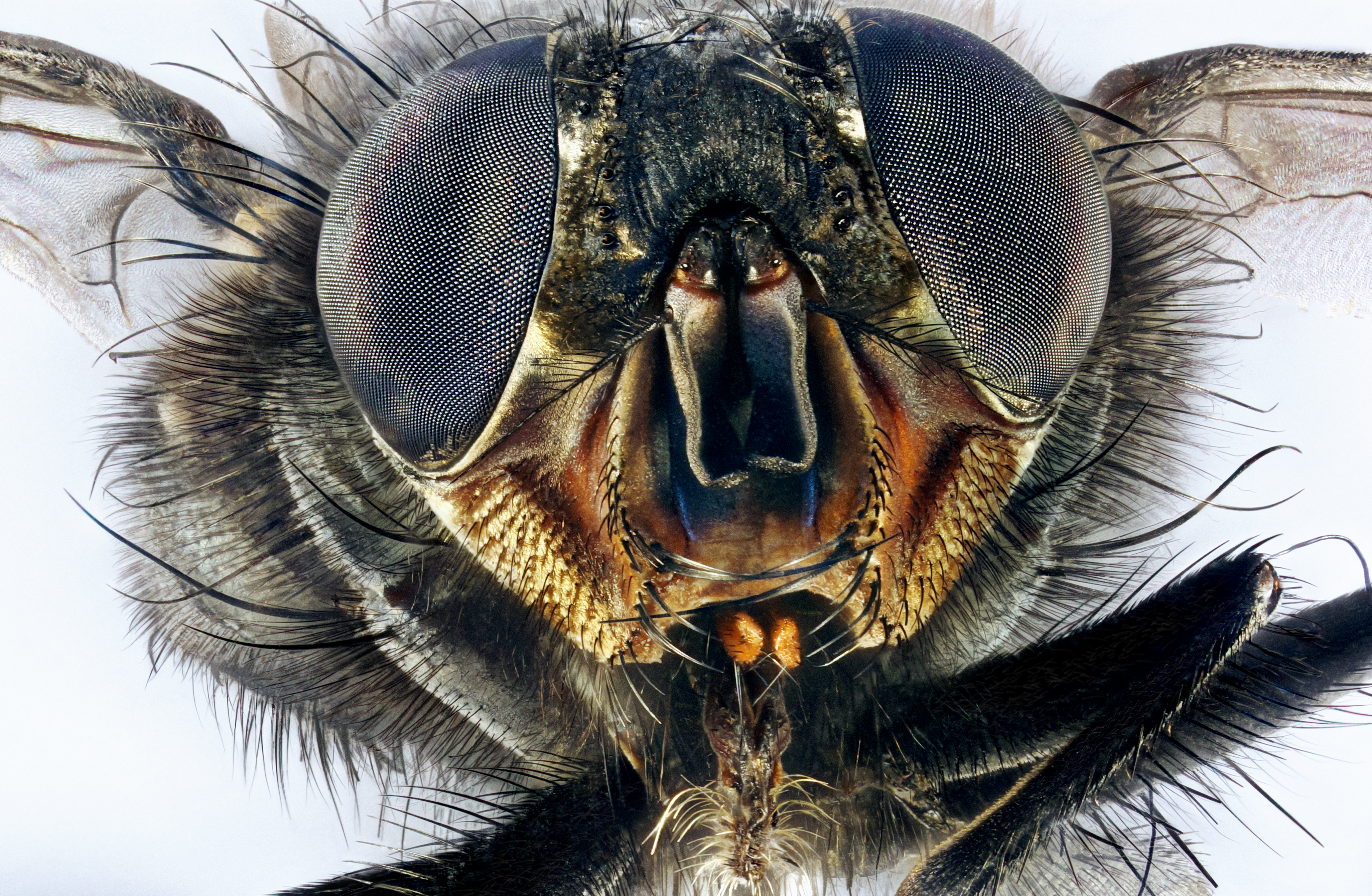 Extremely sharp and detailed macro portrait of a housefly Musca domestica taken with two lenses MC Jupiter-37A, which was made in 1985, and a retro lens Zenitar-M 1,7/50, made in 1982, as one lens, stacked from many shots into one very sharp photo.